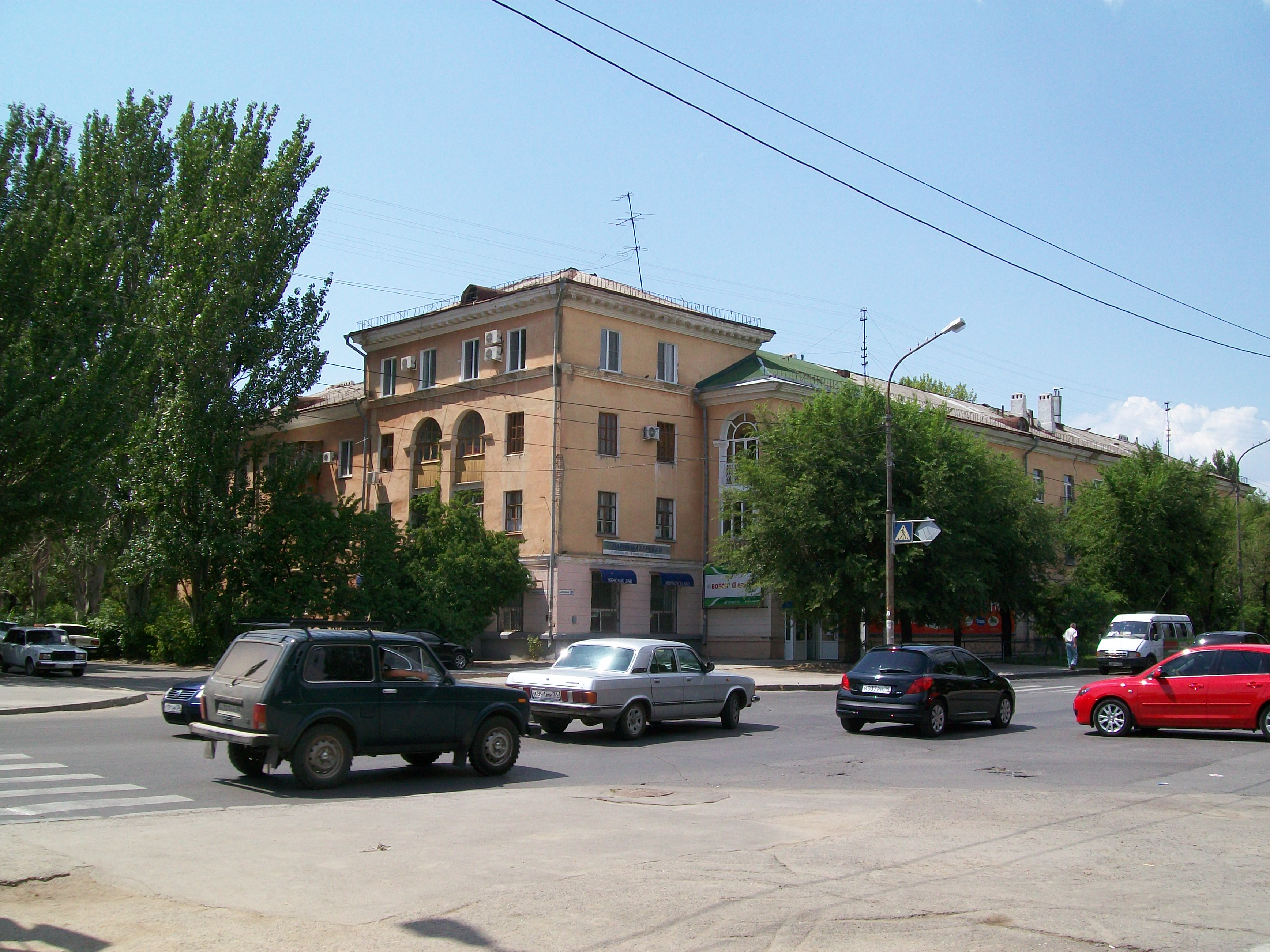 Lenin avenue in the old part of Volzhskiy.